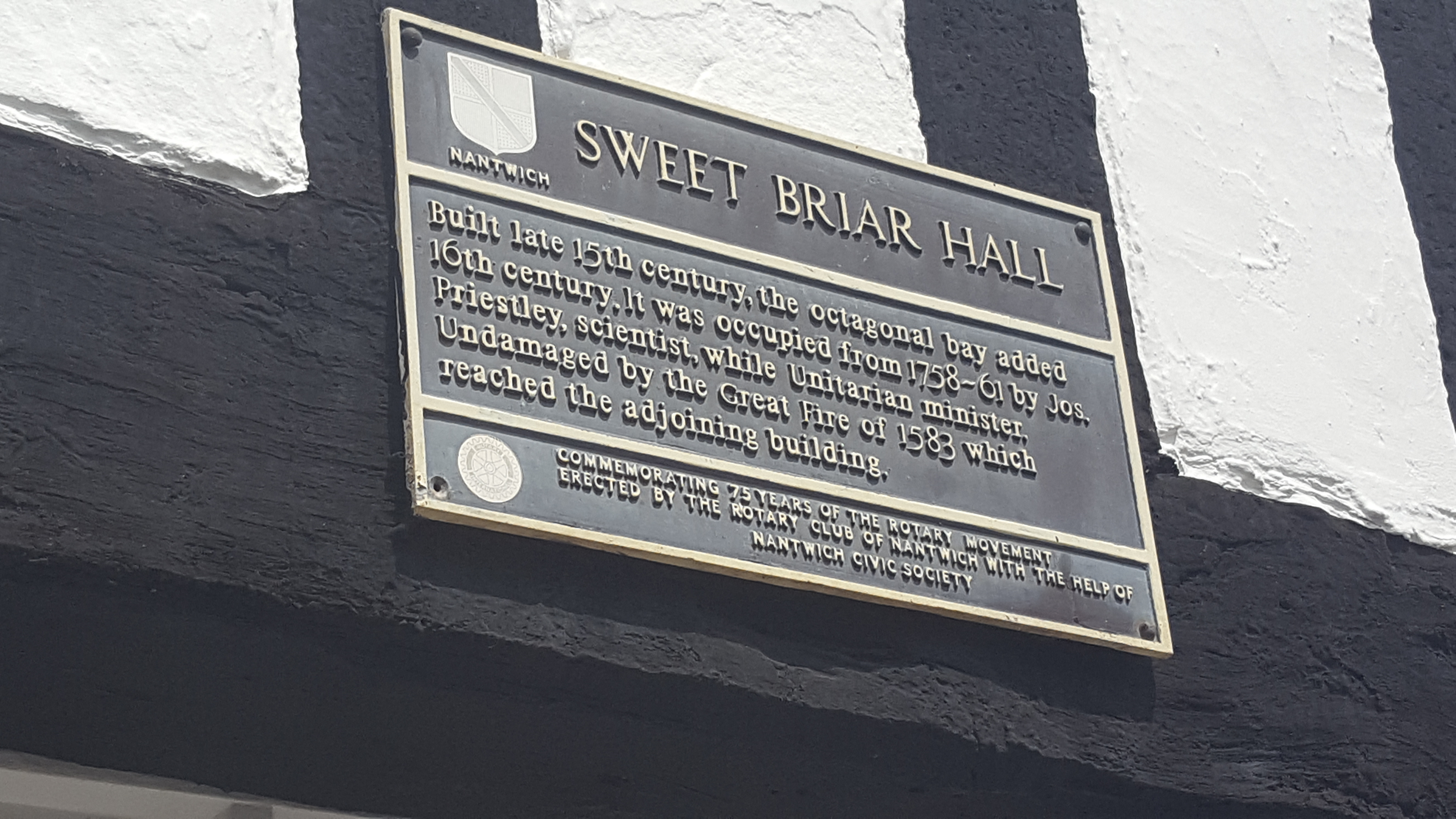 Plaque mounted on frontage of Sweetbriar Hall, Hospital Street, Nantwich